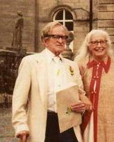 Colour photograph of Maxwell Fry and his wife Jane Drew on the occasion of a dinner party to mark Max's 85th birthday. At Lartington Hall, Co. Durham, England, August 1984. A large number of family, friends and colleagues were present.